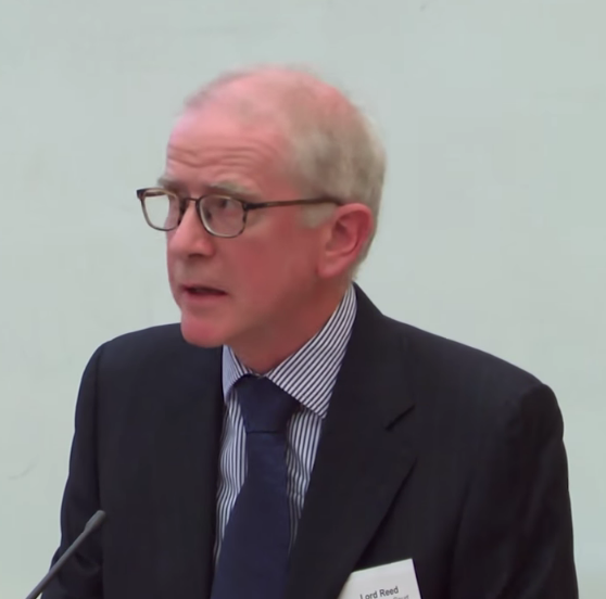 The Right Honourable Robert John Reed, commonly called Lord Reed, gives a speech about Inter-Jurisdictional Dialogue.